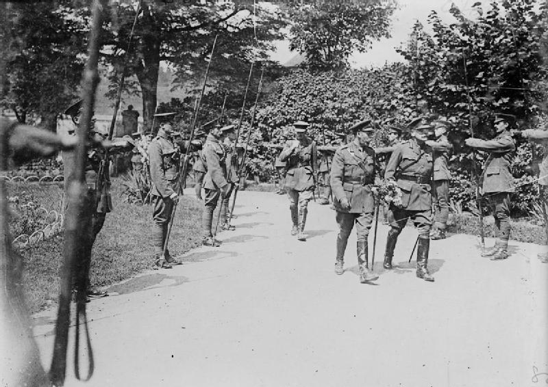 H.M. the King with Sir Douglas Haig, arriving at the Commander-in-Chief's Chateau (Advanced GHQ) at Beauquesne, 8th August 1916. Guard of Honour from 17th Lancers under Captain Black